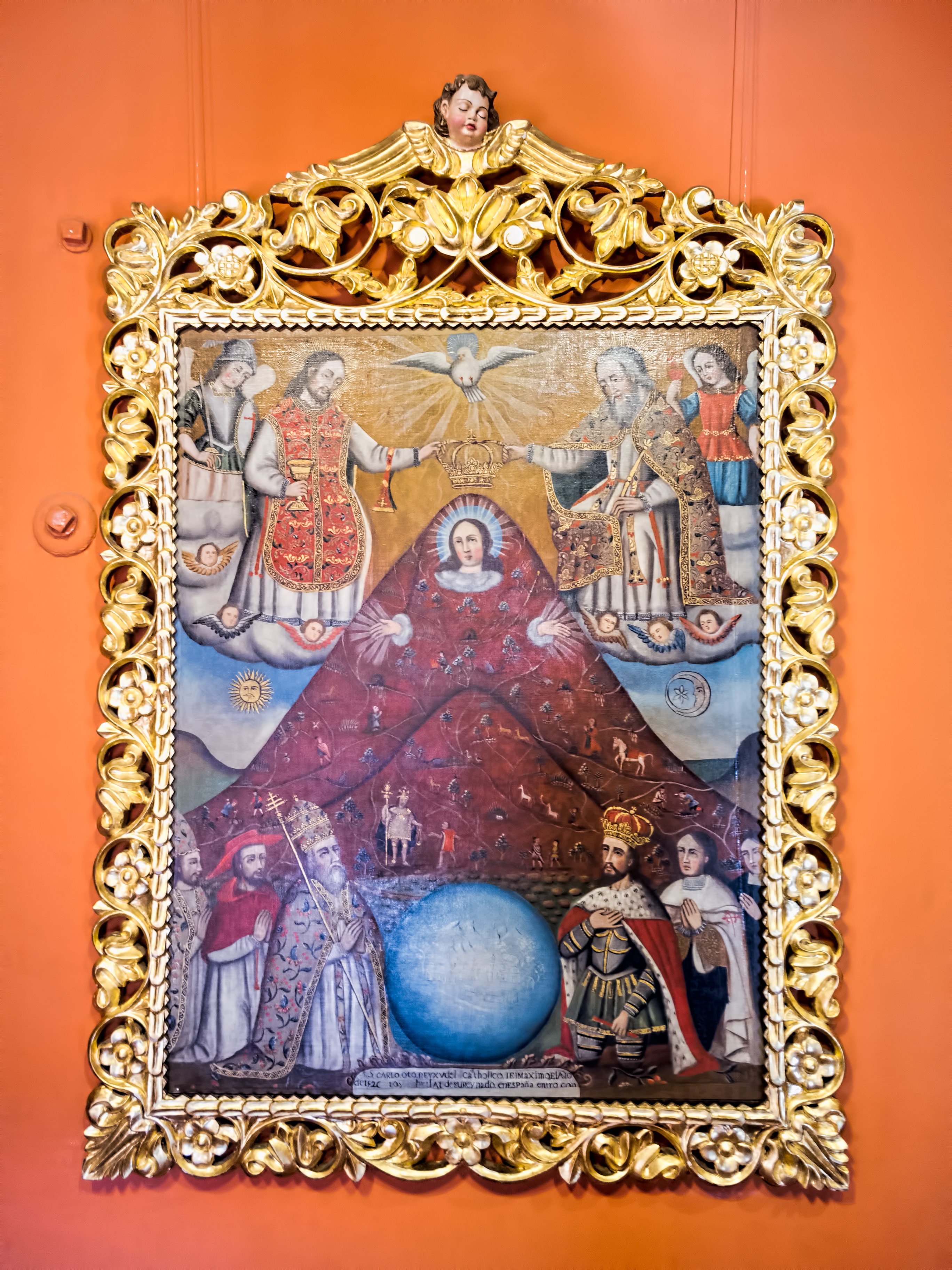 The National Mint displays a collection of artworks including the 18th century painting “Our Lady of the Hill” (“Virgen del Cerro”) by an anonymous artist who depicts the Virgin Mary as the conical Rich Hill (Cerro Rico). The National Mint was built between 1753 and 1773 and takes up an entire city block. Coins were minted here up until 1953. (Today Bolivian coins are made in Canada and Chile using cheaper materials than silver.) Potosí (elev. 4,090m/13,420ft) [for comparison: Lhasa, Tibet, at 3,658m/12,001ft] was founded in 1545 as a mining town at the foot of Rich Hill (Cerro Rico), the world’s largest silver deposit. An estimated 60% of all silver mined in the world during the second half of the 16th century came from Potosí which was reputed to be the world’s largest industrial complex at the time. Its population eventually exceeded 200,000 people, making it one of the largest cities in the world. Most of the mining and smelting (using mercury) was done by forced labor, both indigenous people and African slaves. As many as 8 million workers are estimated to have died between 1545 and 1825. Output began to decline in the early 19th century. By the 1890s, low silver prices prompted a shift to mining tin. Growing demand for tin this century by the electronics industry has helped the local economy. Silver extraction continues on a small scale. Miguel de Cervantes’ novel “Don Quixote” describes Potosí as a land of “extraordinary richness” (chapter 71 in the second volume which was published in 1615). The City of Potosí was declared a UNESCO World Heritage Site in 1987. On Google Earth: Casa Nacional de la Moneda 19°35'19.77"S, 65°45'15.35"W